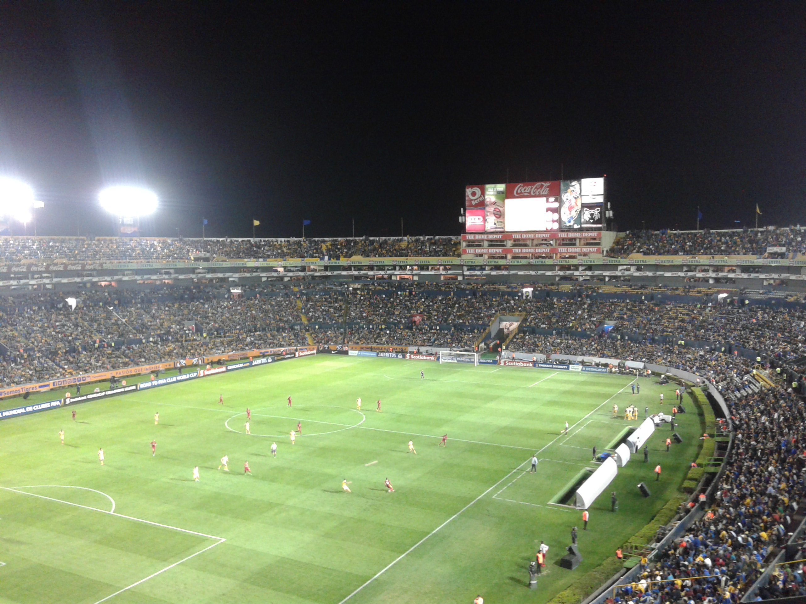 Photography from the Universitario Stadium taken by me in a soccer match of Tigres vs Real Salt Lake in Concachampions.